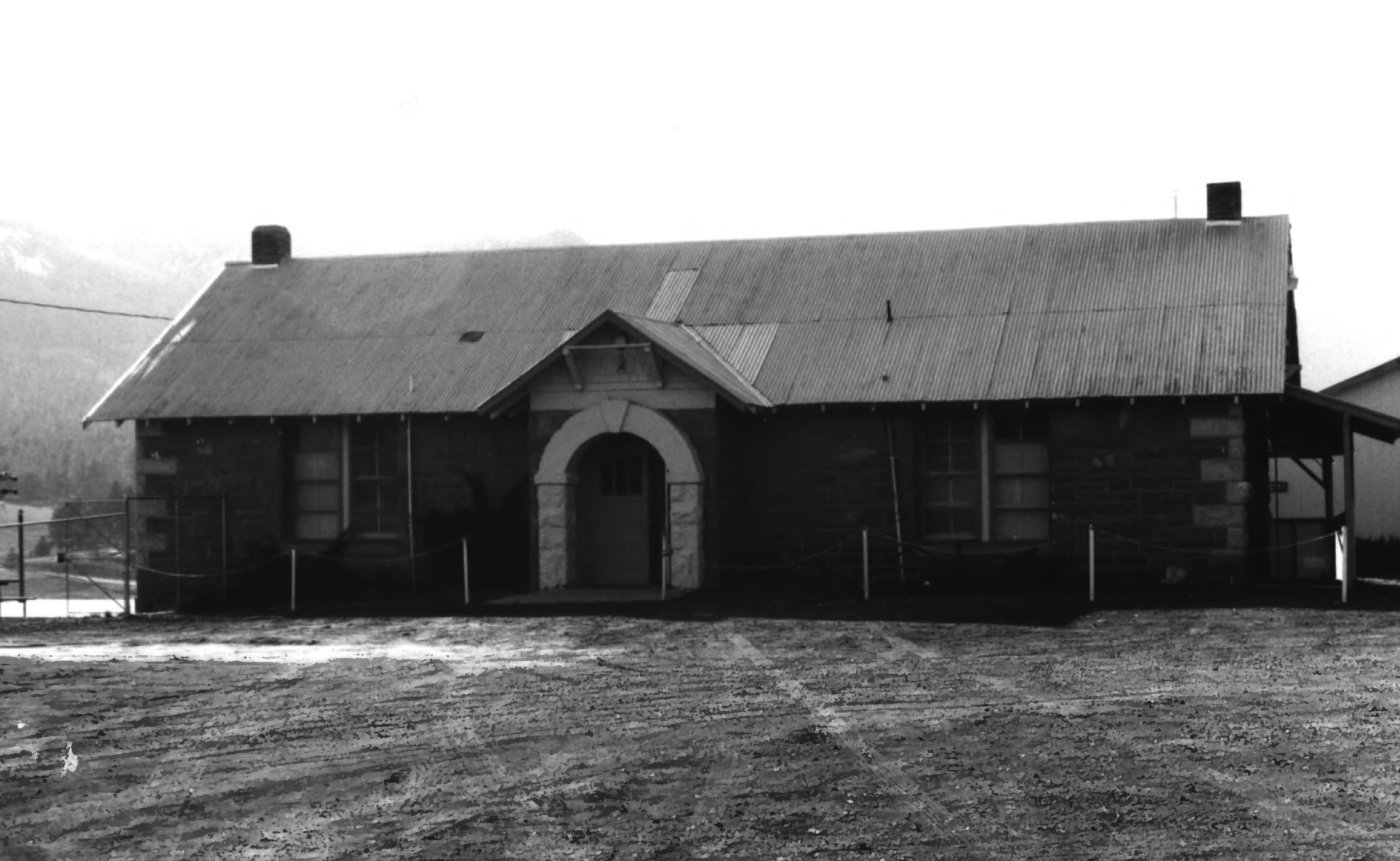 Alpine Elementary School, Alpine, Arizona